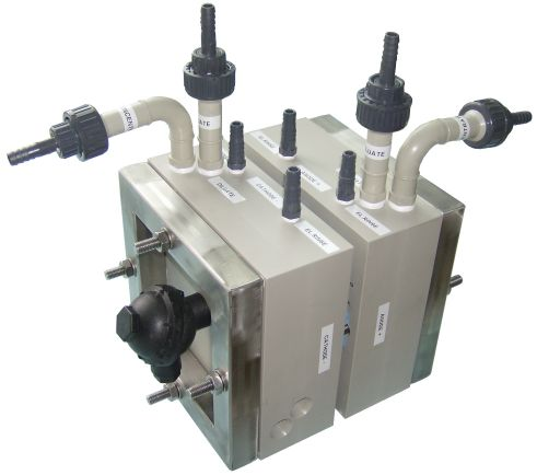 Electrodialysis stack